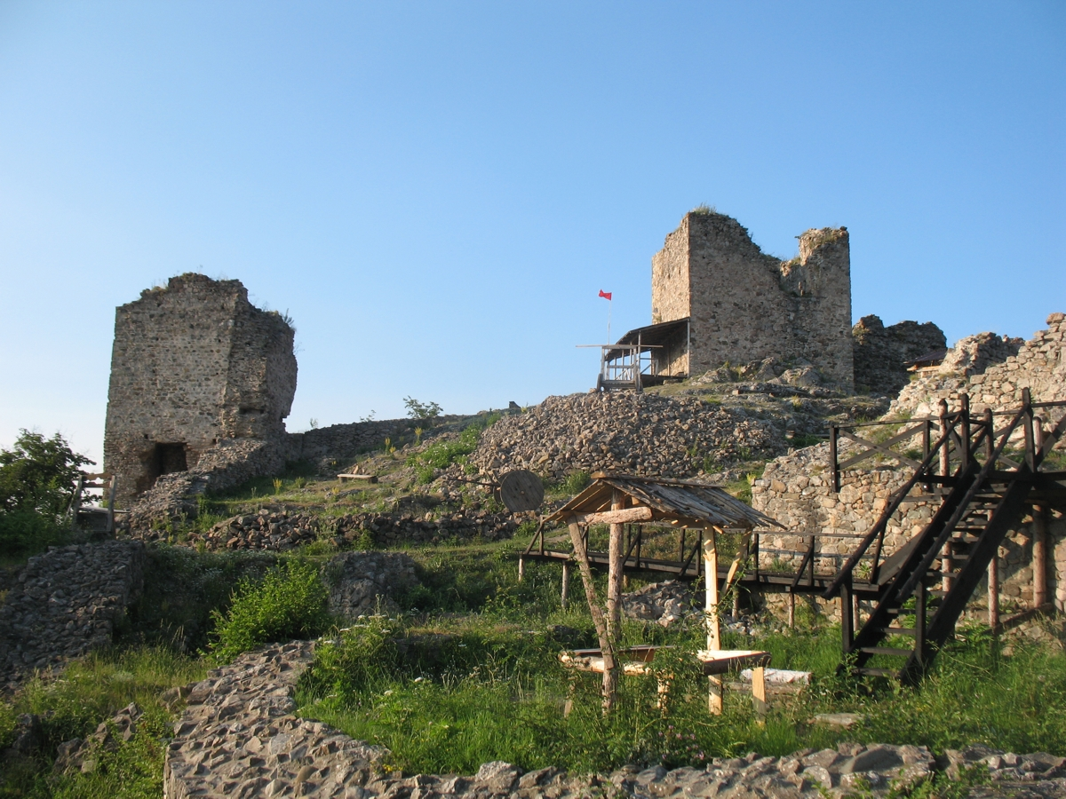 Koznik fortress above Rasina river on Kopaonik slopes,near Brus, Serbia.